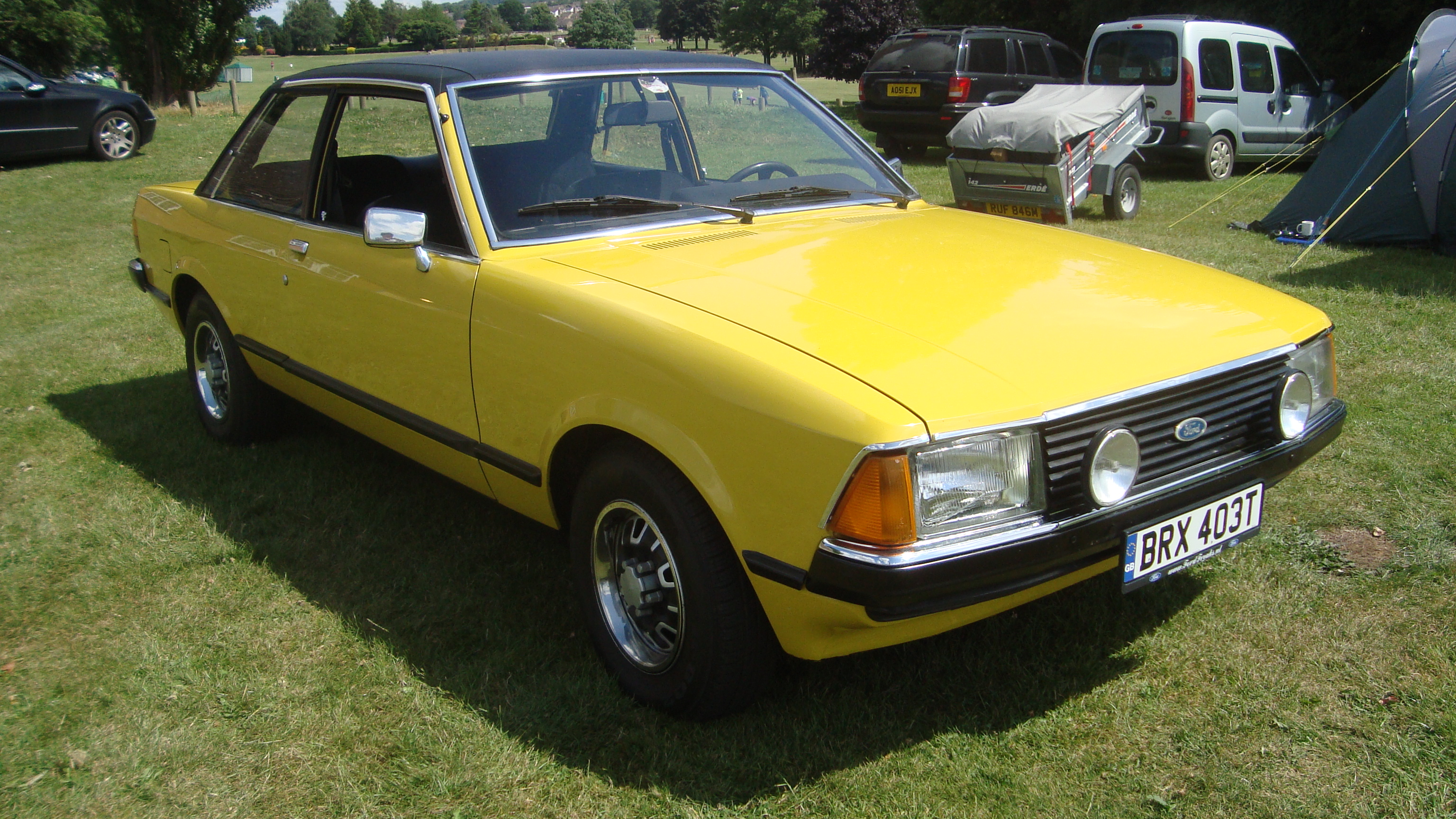 Been here since 1998 and listed as having a 1.8